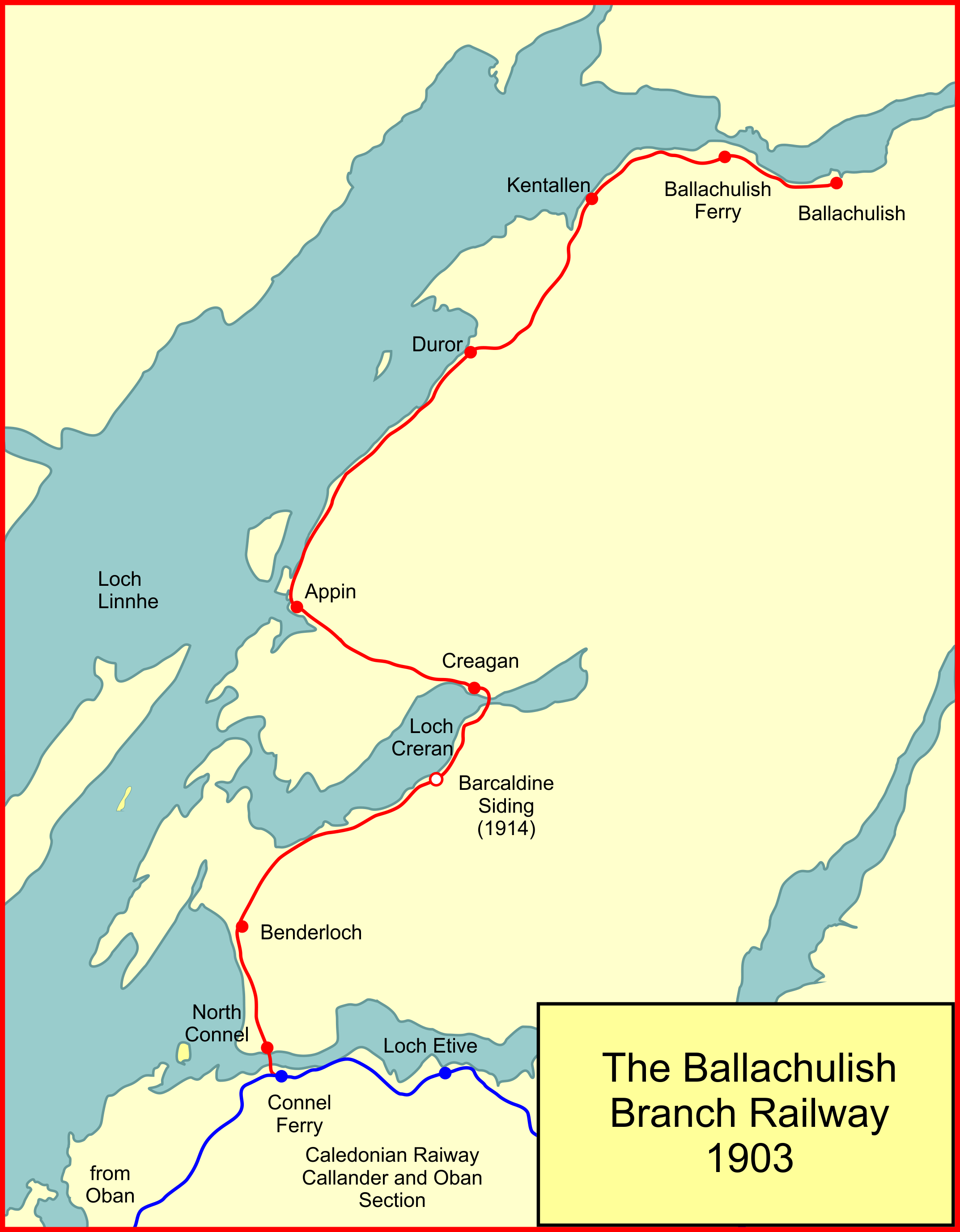 System map of the Ballachulish branch railway, Scotland